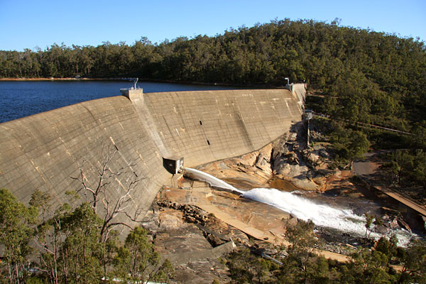 Wellington Dam, Collie, Western Australia